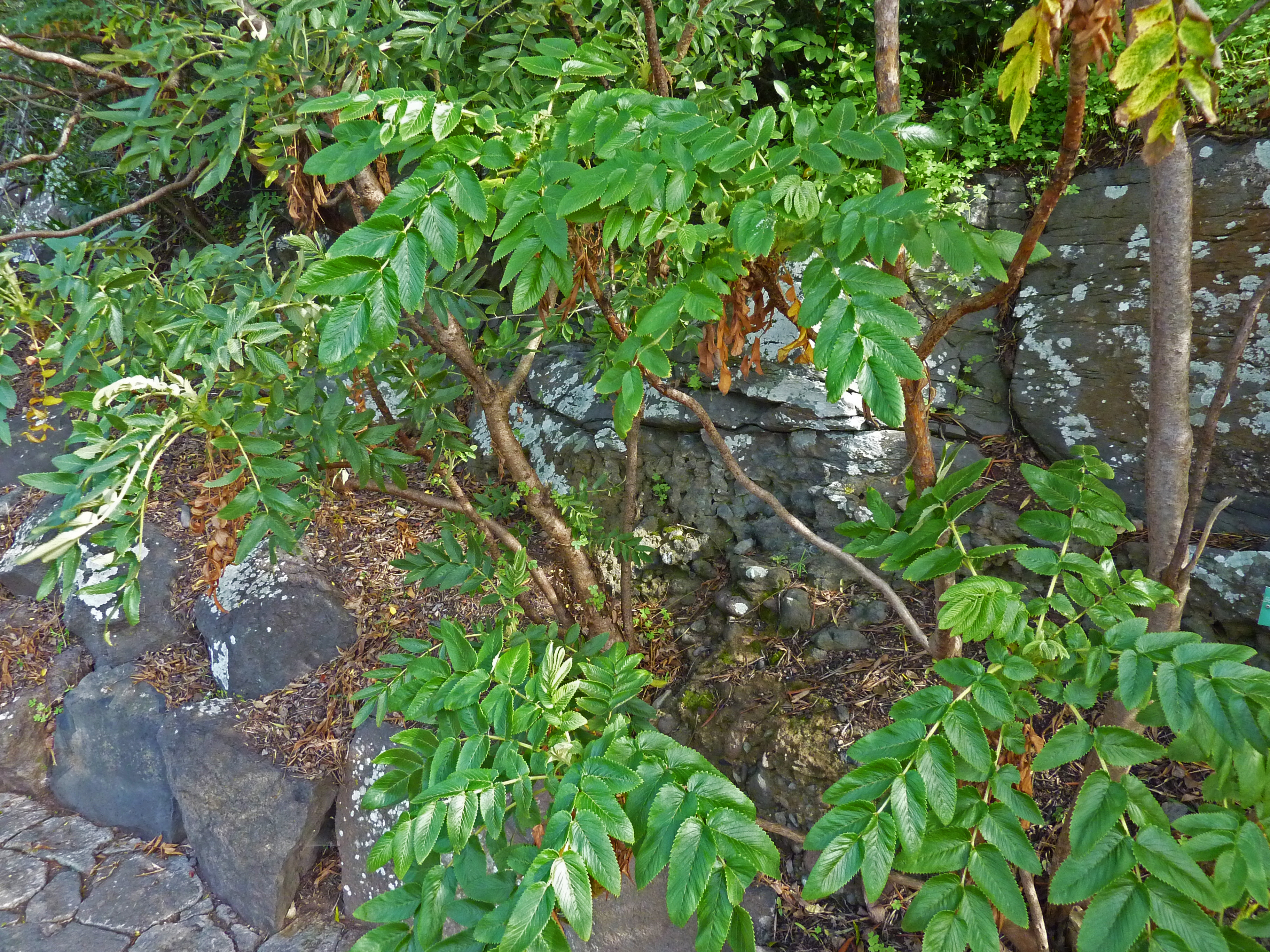 Bencomia sphaerocarpa in the Jardín Botánico Canario Viera y Clavijo.